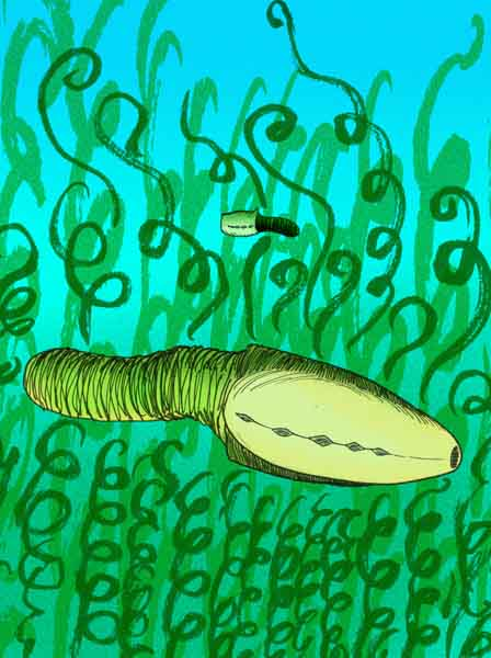 My reconstruction of the enigmatic Vetulicolian heteromorphids, "Form A" (top) and Heteromorphus longicaudatus (synonym = "Banffia confusa"), of the Maotianshan shale biota, of Early Cambrian China. (C) Stanton